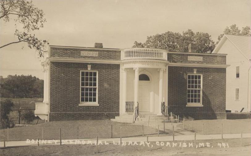 Bonney Memorial Library, Cornish, Maine